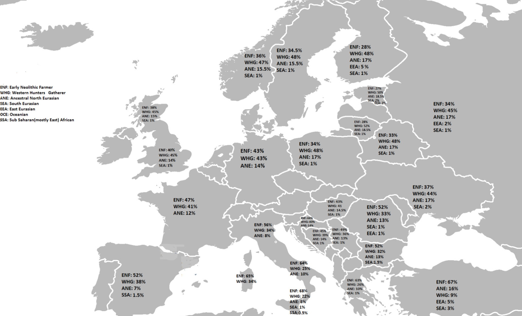 Map of Ancient North Eurasian, West European Hunter Gatherer and Early Neolithic Farmer admixture in Europe. Legend: ENF: Early Neolithic Farmer ANE: Ancient North Eurasian WHG: Western Hunter Gatherers SEA: South Eurasian/Central Asian component EEA:Еast Eurasian component OCE: Oceanian component SSA: Sub-Saharan African Components lower then 1% were not taken into consideration